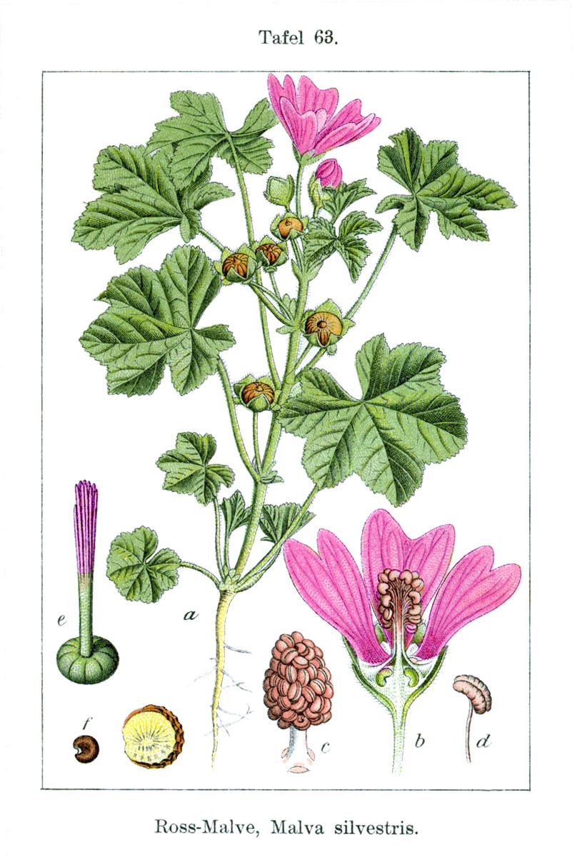 Illustration of Malva sylvestris L. Original Description Ross-Malve, Malva silvestris